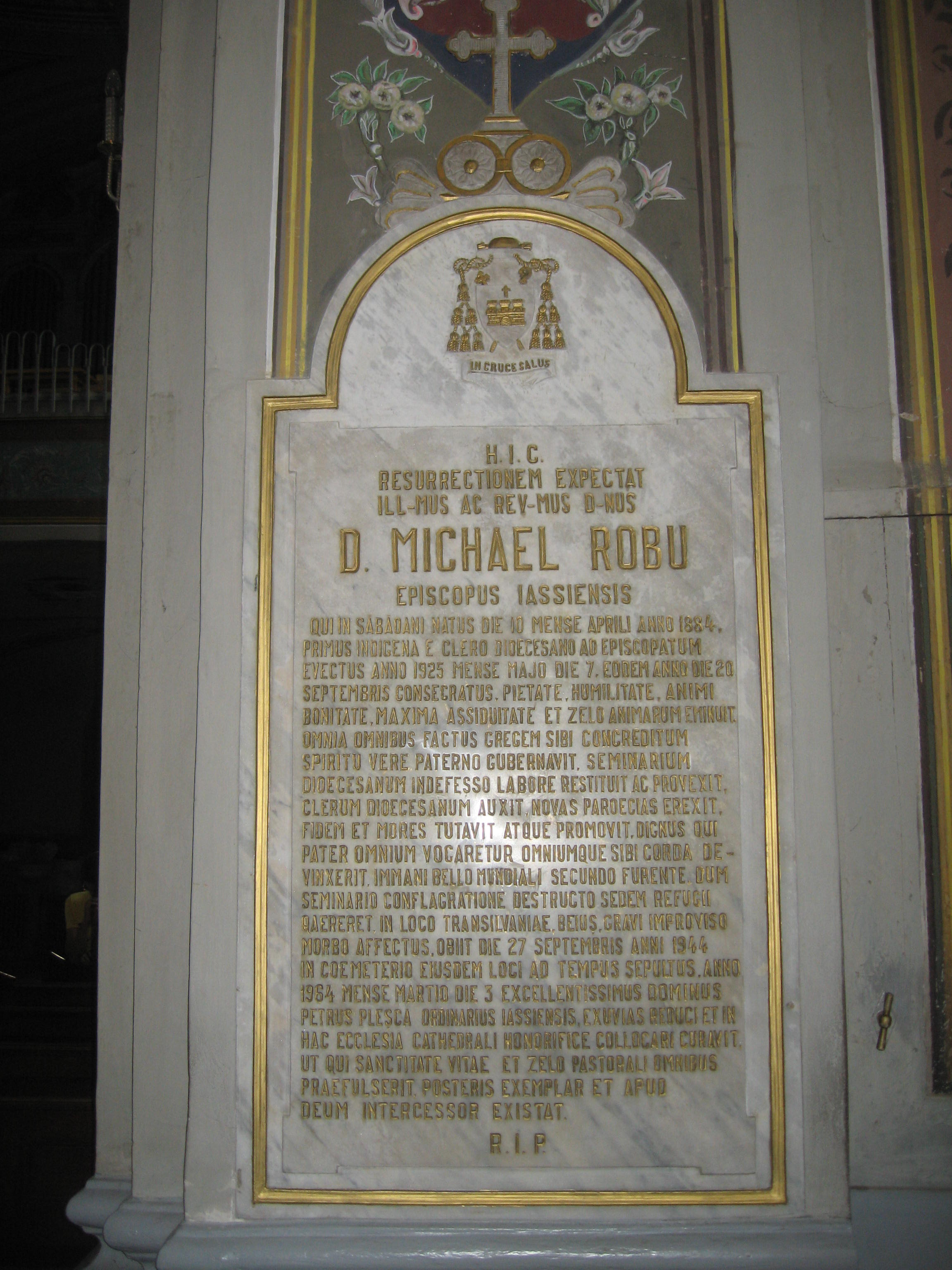 Catedrala Adormirea Maicii Domnului din Iaşi